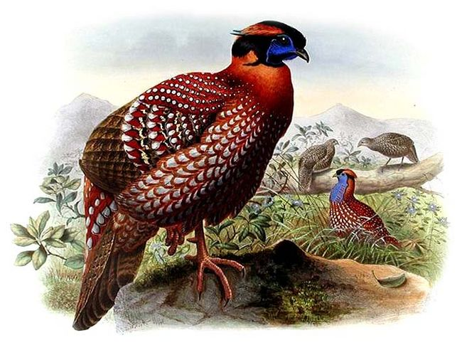 Tragopan temminckii